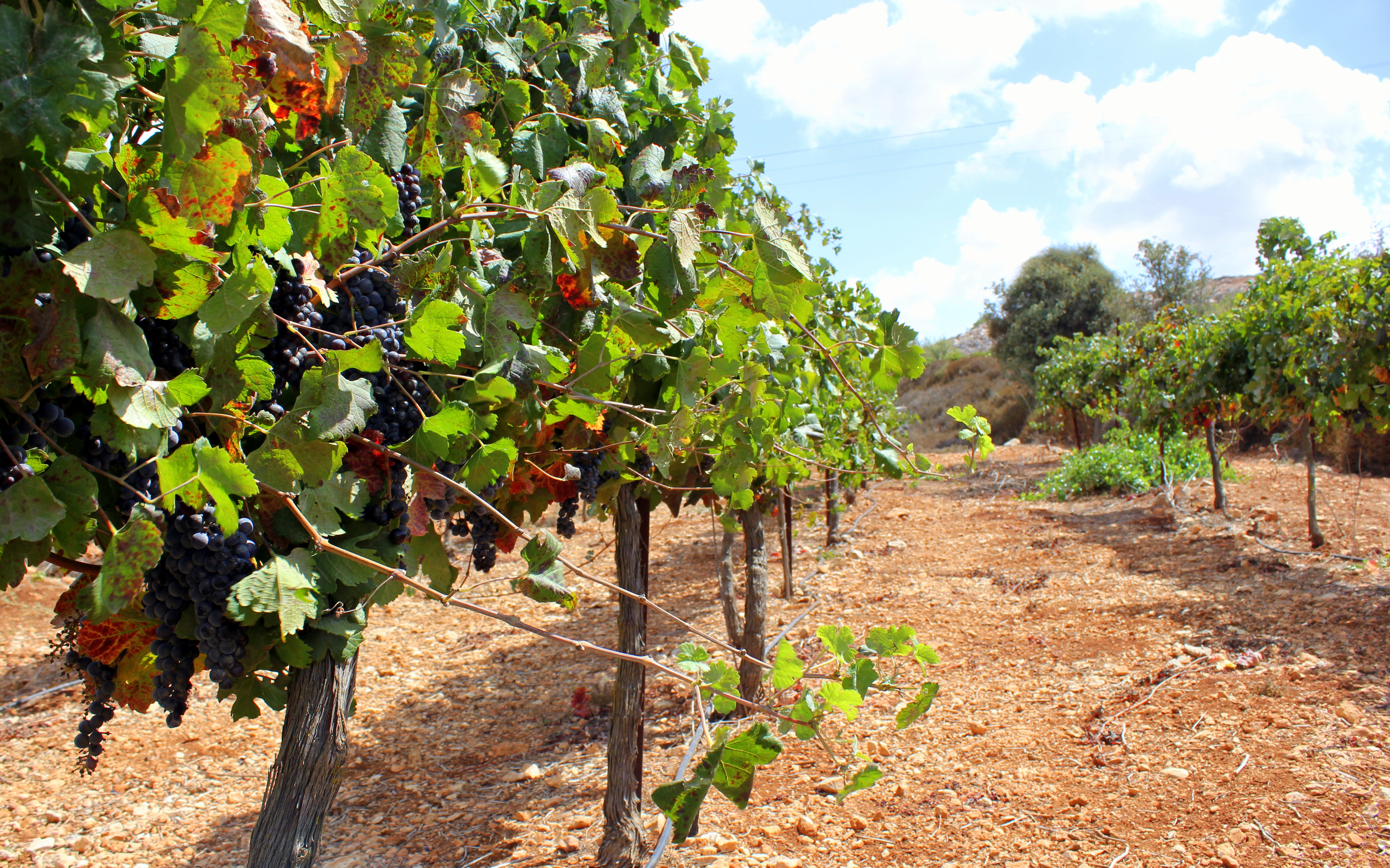 Gush Etzion, occupied Palestinian territories Flora of Israel